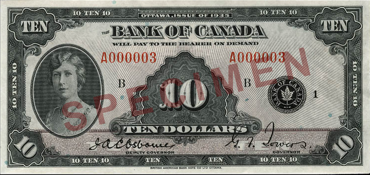 1935 Series $10 banknote, obverse